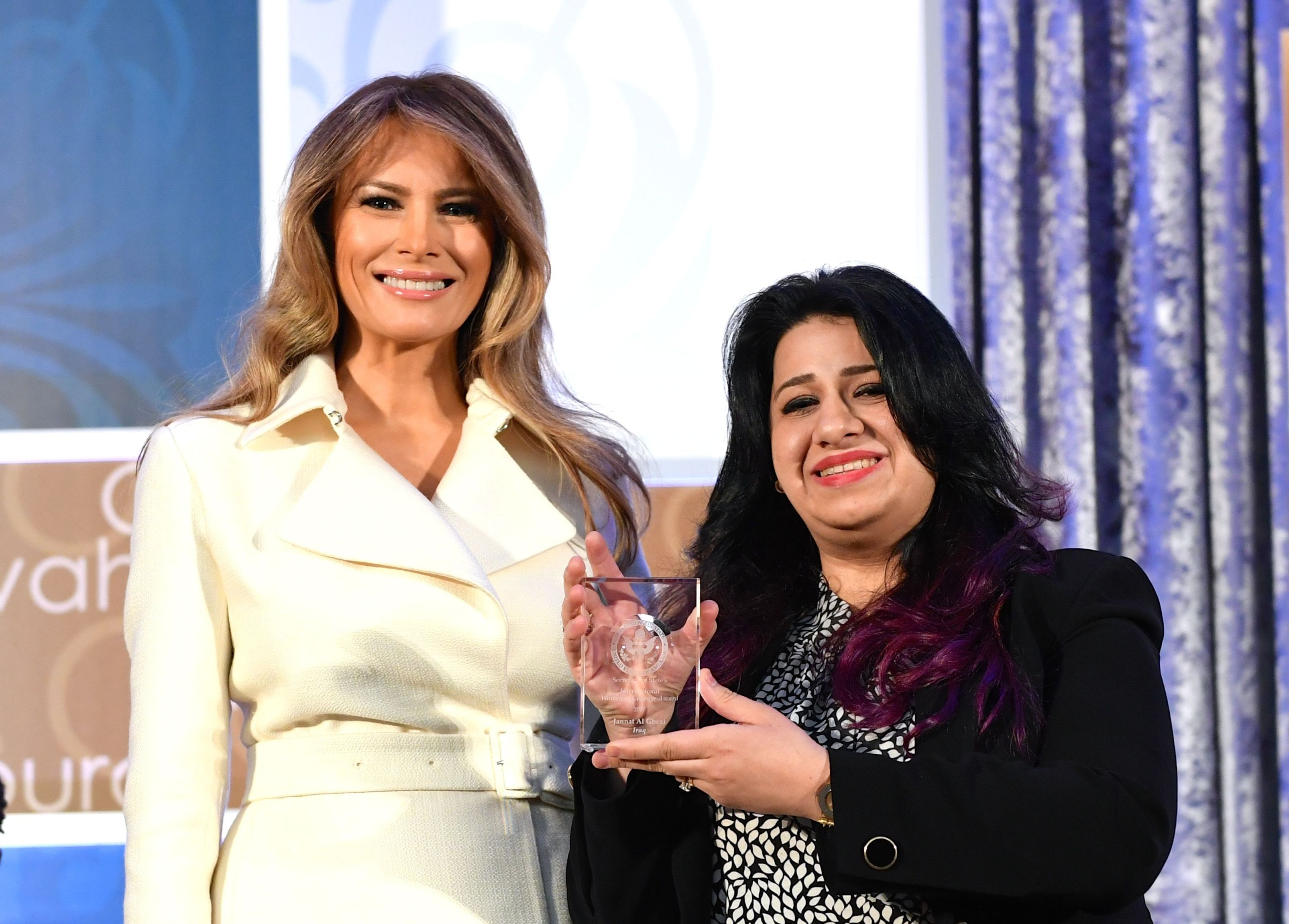 First Lady Melania Trump poses for a photo with 2017 International Women of Courage Awardee Jannat Al Ghezi of Iraq during a ceremony at the U.S. Department of State in Washington, D.C., on March 29, 2017. "Jannat Al Ghezi and the Organization of Women's Freedom in Iraq (OWFI) take daily risks to help women throughout Iraq escape violence and even death by offering them shelter, training, protection, and legal services. OWFI has helped over 500 victims of rape or domestic abuse. Jannat's role within the organization has been to coordinate the network of shelters for battered women. These shelters have been particularly helpful to countless Yazidi and other women from the Mosul area who suffered horribly under the brutal ISIS occupation of the area. Without help, many of these women would have ended up on the streets, and subjected to human trafficking and threats of honor killing. OWFI provides these women the chance to have new lives by offering education and practical skills like sewing. Jannat understands how important this is because she was once a victim of domestic abuse and subjected to threats from her tribal family. OWFI helped her gain a new life by encouraging her to complete her studies and follow her passion to help other women in need. She currently manages media relations at OWFI and serves as the editor of the organization's newspaper, Equality. Through OWFI, Jannat has also assisted women stranded in life-threatening situations by divorce, abandonment, and abuse from their spouses, many of whom did not have access to their travel documents because they were retained by their spouses. Some of these women were U.S. citizens living in Iraq. Jannat made herself available to shelter these women 24/7 and she is willing to go wherever she is needed to help, no matter how dangerous. She is motivated by her wish that all women in Iraq who are victims of violence have their human rights protected." [1]